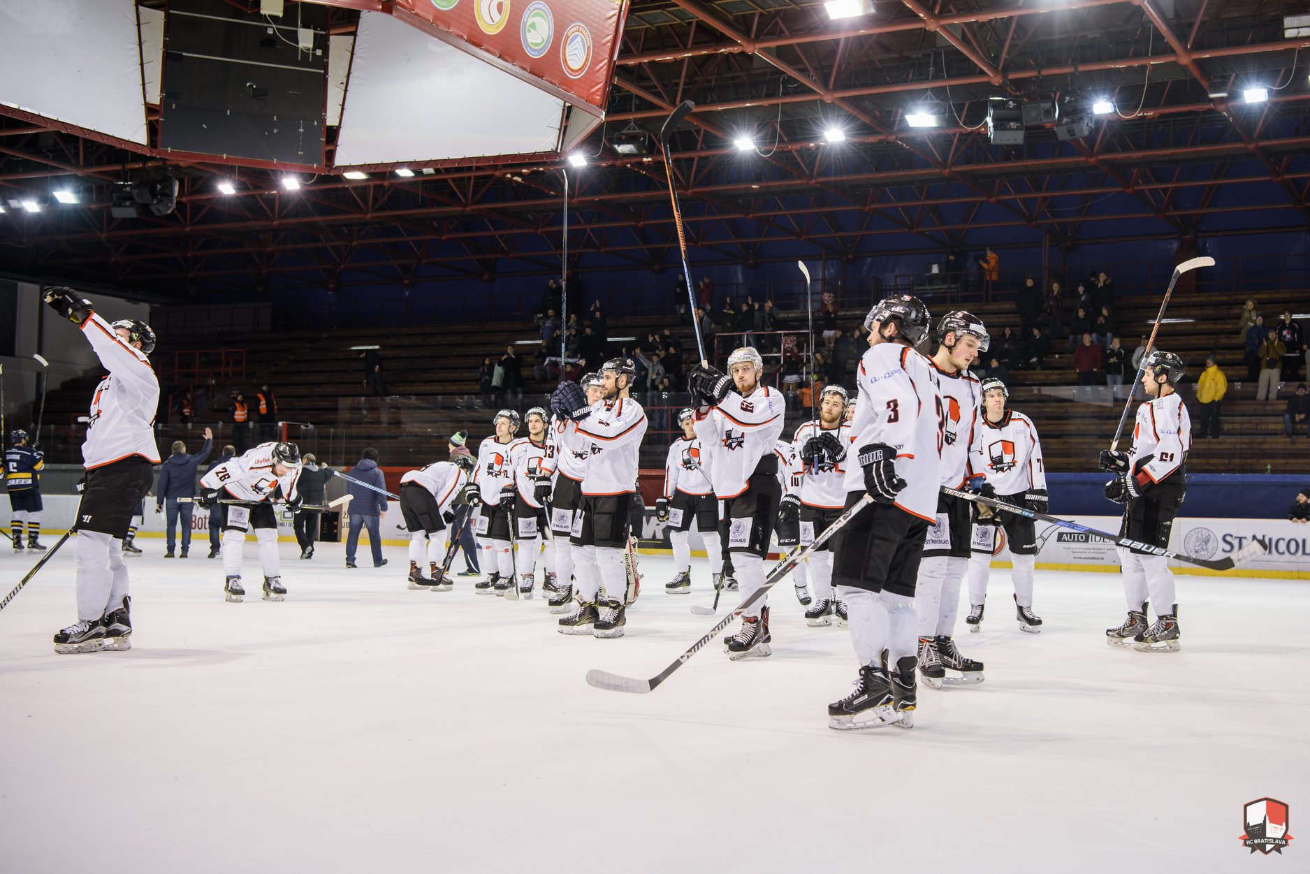 HC OSMOS BRATISLAVA